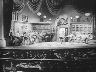 Chorus performes the song "Dig You Later (A-Hubba Hubba Hubba)" in the 1946 film Doll Face